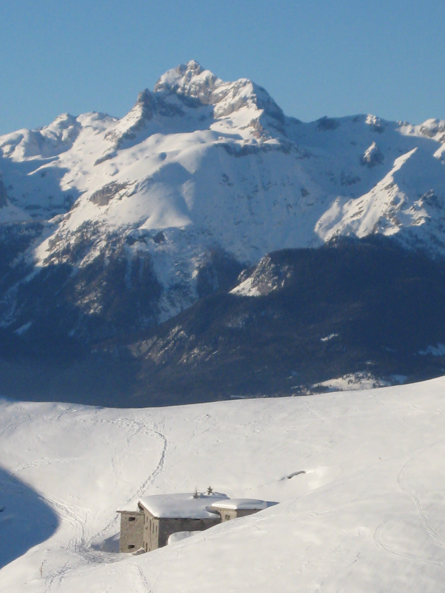 Italian army barracks - before WW2 (Rupnik-line) above Soriska planina, Slovenia